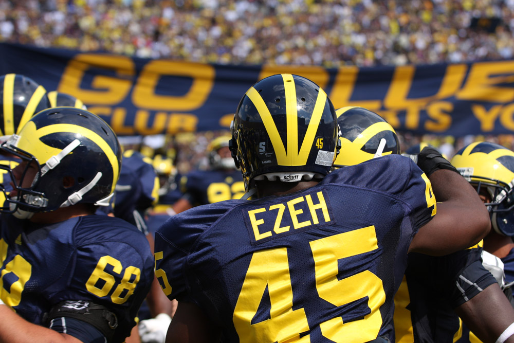 Obi Ezeh